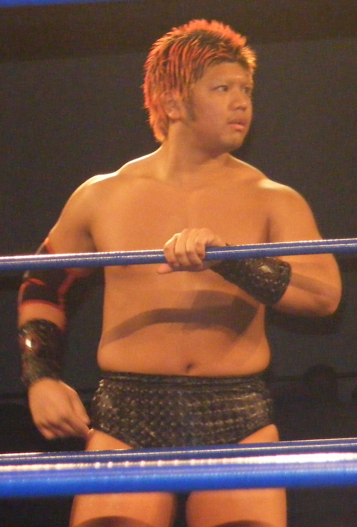 Professional wrestler Tadasuke at Chikara King of Trios 2010.